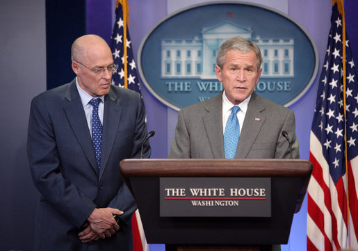 With Secretary of Treasury Hank Paulson looking on, President George W. Bush delivers a statement on the Bipartisan Economic Growth Agreement.